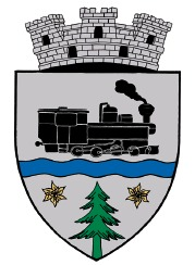 Coat of arms of Vișeu de Sus township, Maramureș County, Romania